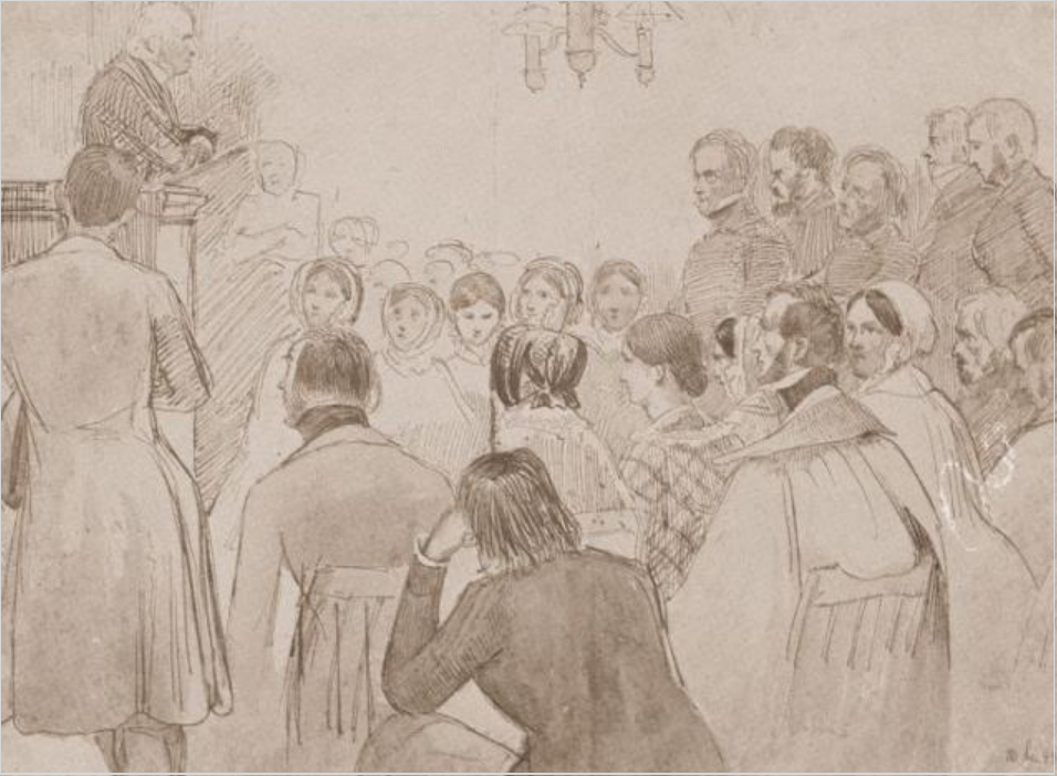 ”Bragesnak – Grundtvig på talerstolen” : Drawing by Johan Thomas Lundbye of N.F.S. Grundtvig 1843. A talk at Borchs Kollegium in Copenhagen 1843